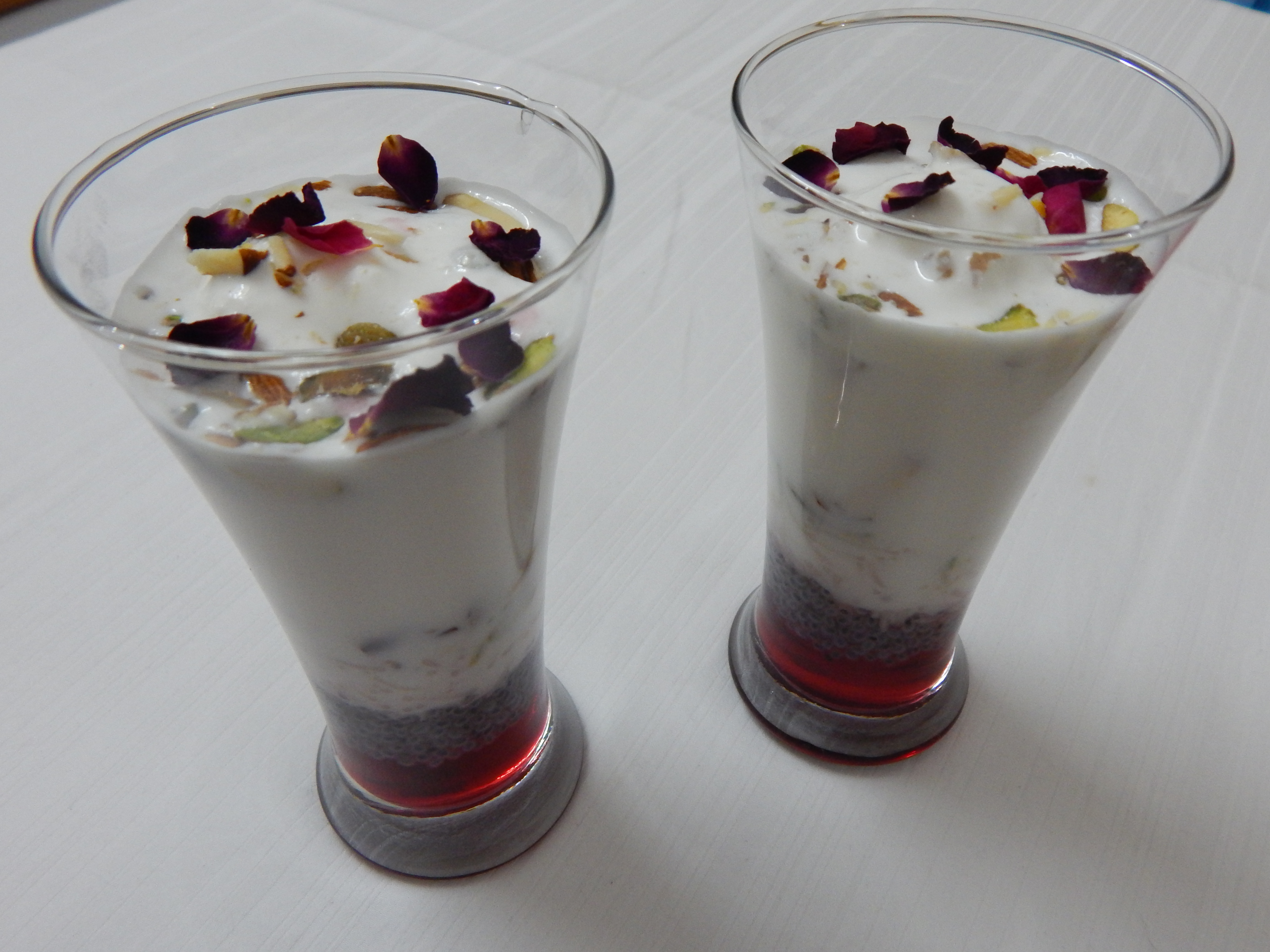 Faluda - An Indian summer cooler